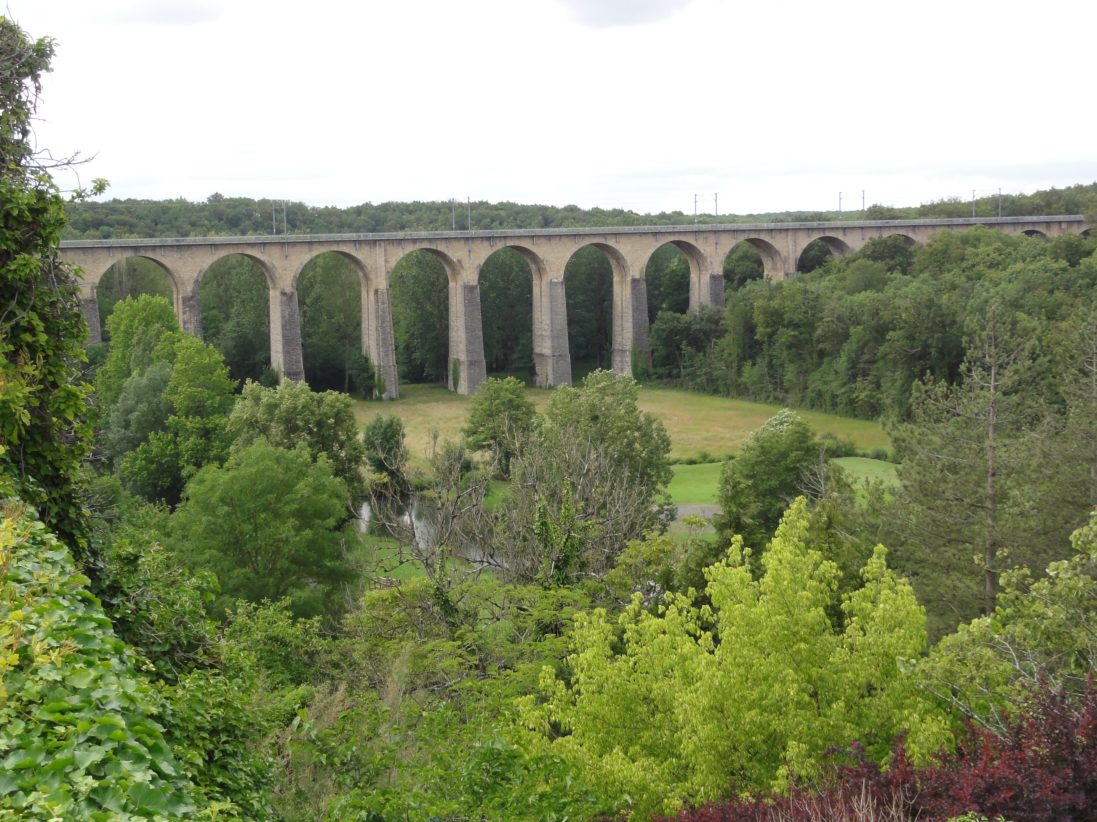 Lusignan (Vienne) viaduc